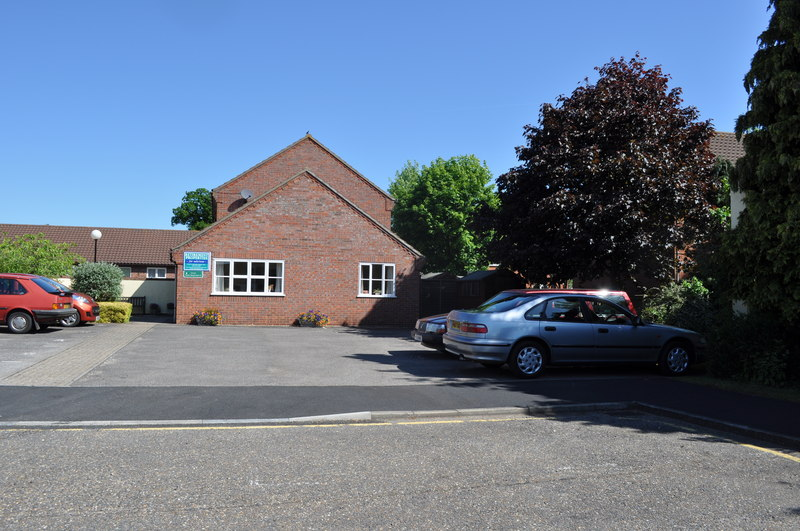 Site of Fakenham East Railway Station, near to Fakenham, Norfolk, Great Britain. This is the only station on the route (Wells to Wymondham) which has gone with out a trace (well almost). The station in 1969 can be seen here. A gate post from the crossing has been preserved but I think it has moved position from its old one. Link The white post on the right is the level crossing post in the picture.